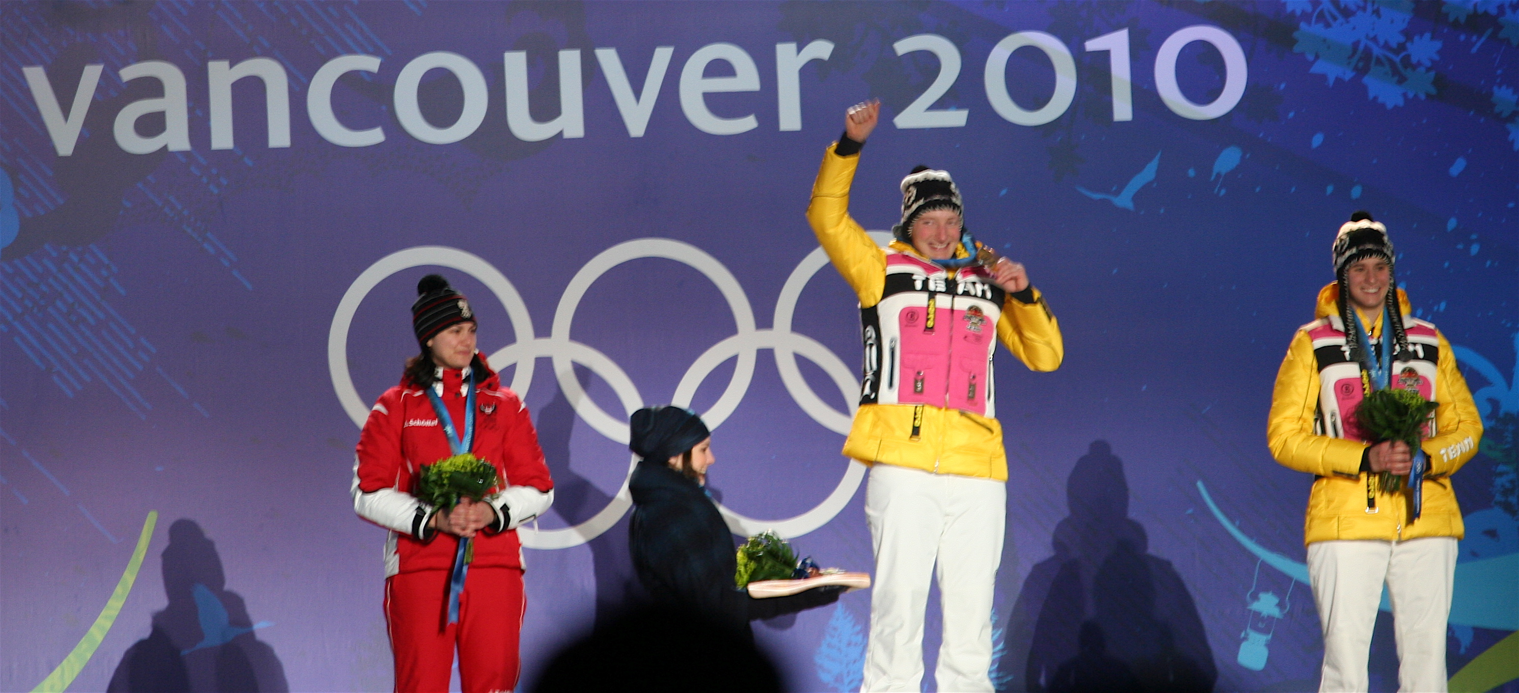 The medal ceremony at the 2010 Winter Olympics. From left: Nina Reithmayer of Austria (silver), Tatjana Hüfner of Germany (gold) and Natalie Geisenberger of Germany (bronze)